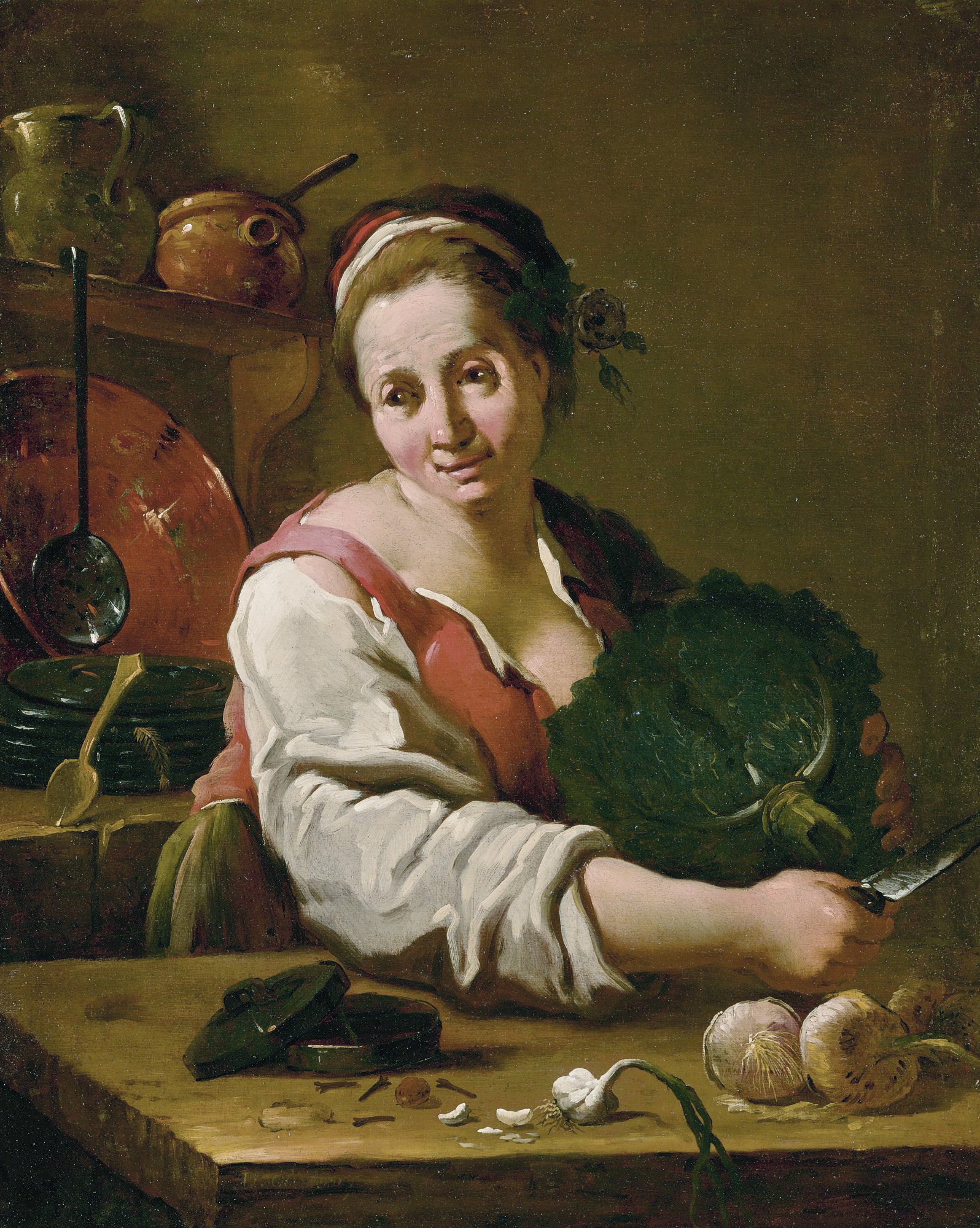 A cook in a kitchen oil on canvas 77 x 65 cm. signed b.r.: D. Ollivero f.